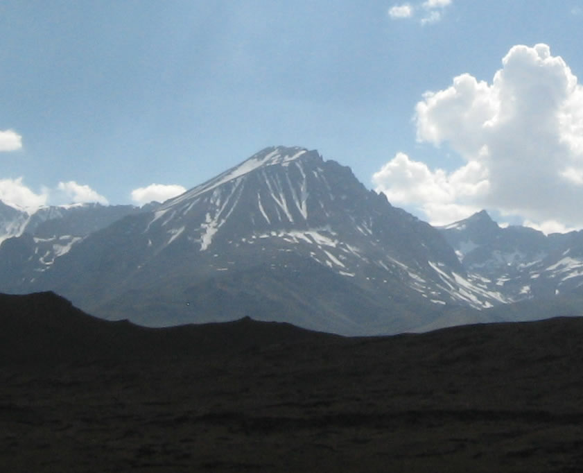 Birch Mountain from Fish Springs Road and highway 395. Detail of this file on Flickr.